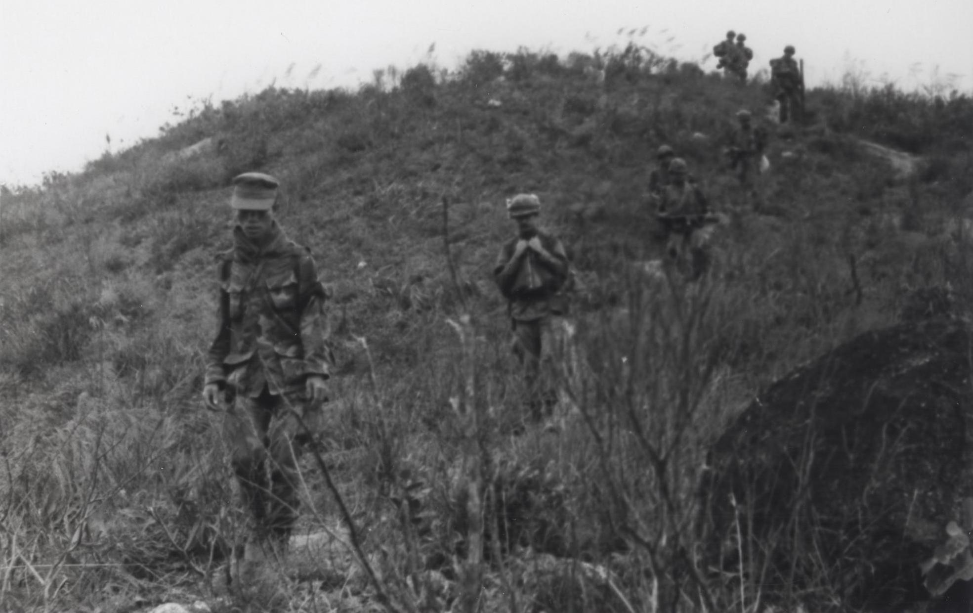 "Oklahoma Hills Marines, led by a Vietnamese Kit Carson Scout, skirt the hills of Oklahoma Hills, a multi-battalion operation west-southwest of here. These 7th Marine Regiment Leathernecks kicked off the operation March 31, when they assaulted Charlie and Worth Ridges." From the Jonathan F. Abel Collection (COLL/3611), Marine Corps Archives & Special Collections OFFICIAL USMC PHOTOGRAPH